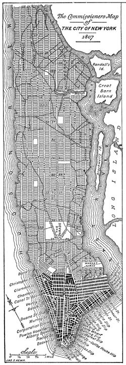 The Commissioners' Plan of 1811 provisional map, released in 1807